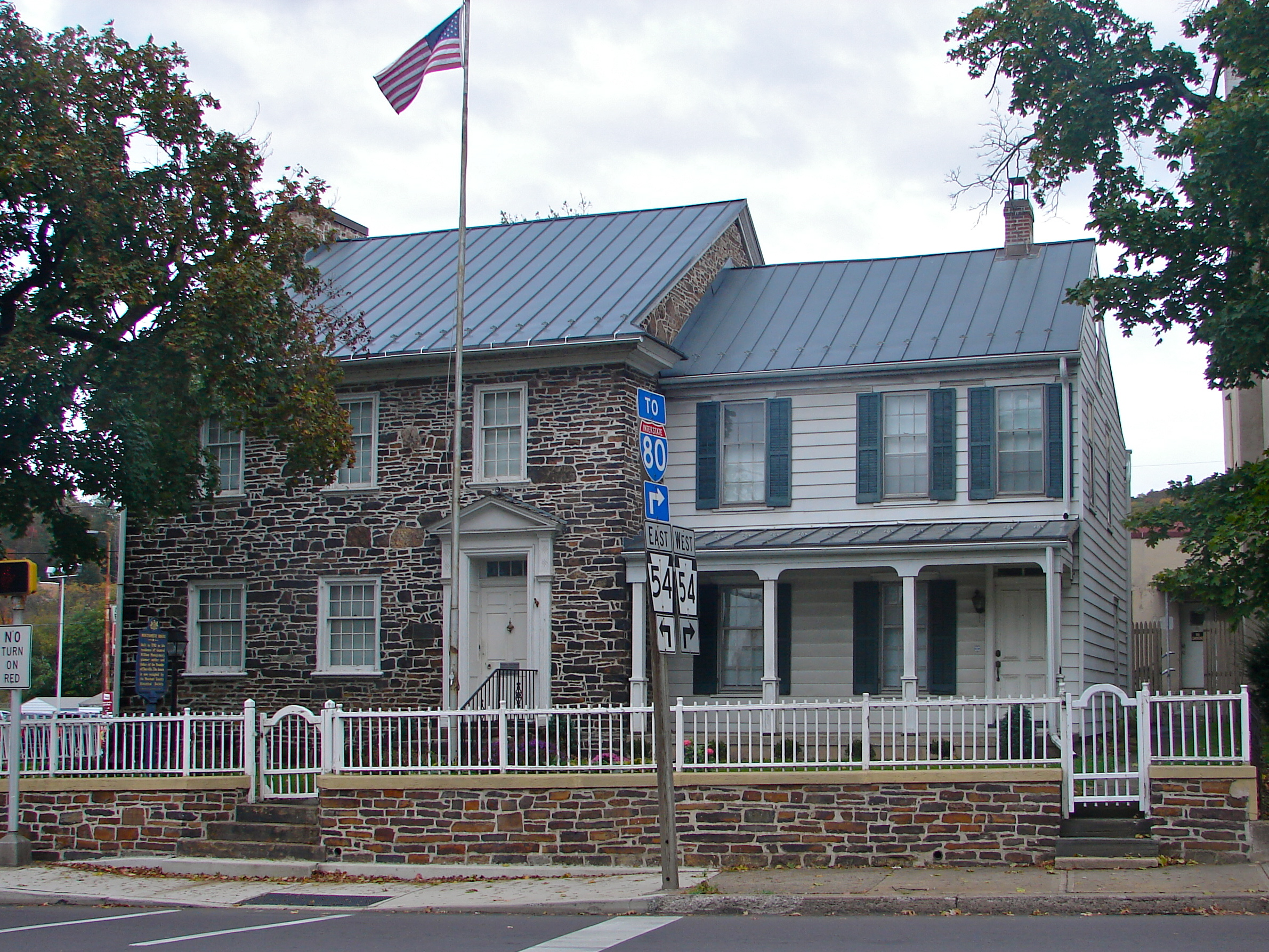 Gen. William Montgomery House on the NRHP since August 9, 1979. At 1 and 3 Bloom Street, Danville, Montour County, Pennsylvania